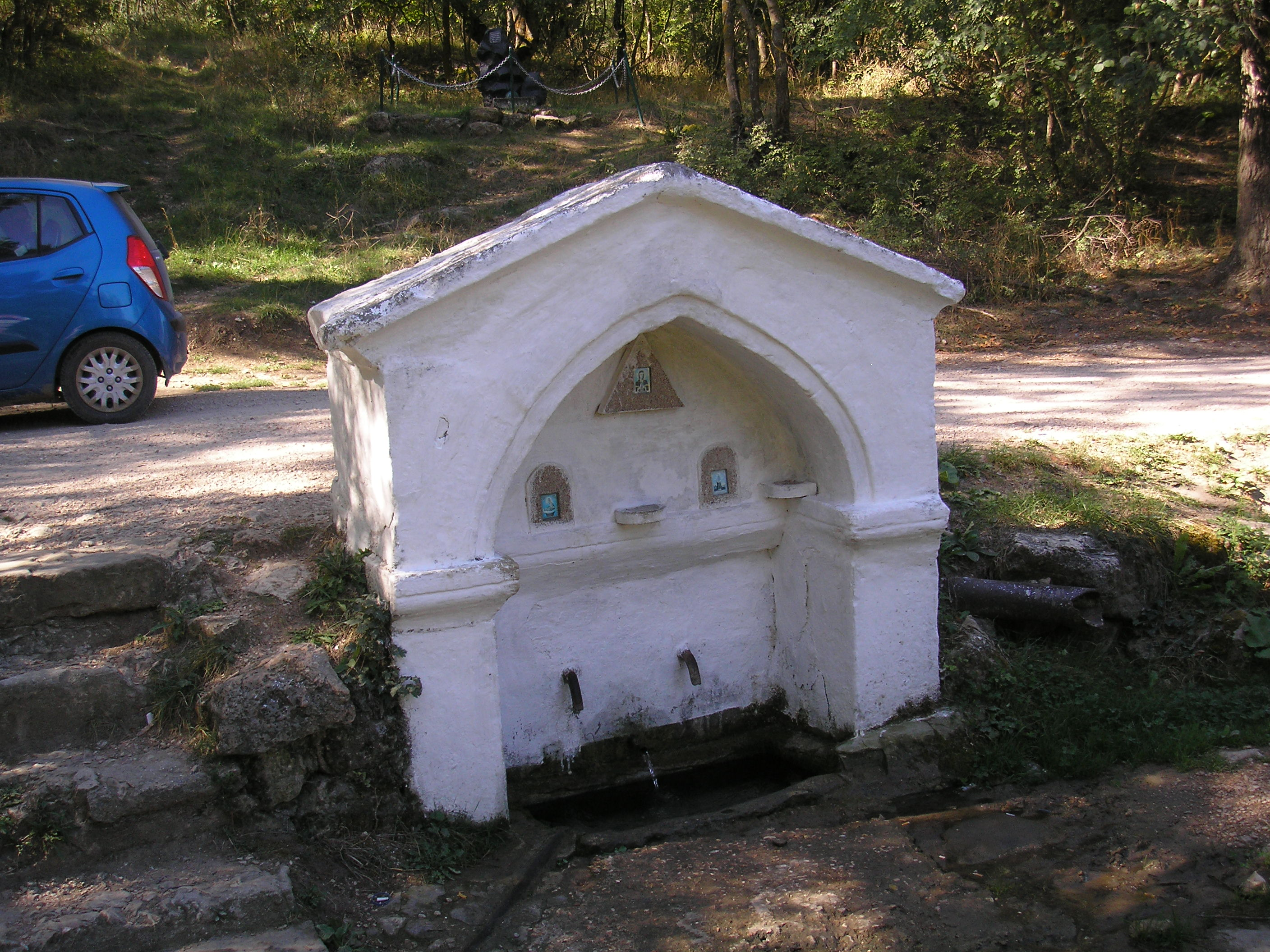 Village Morozovka, Sevastopol, Crimea